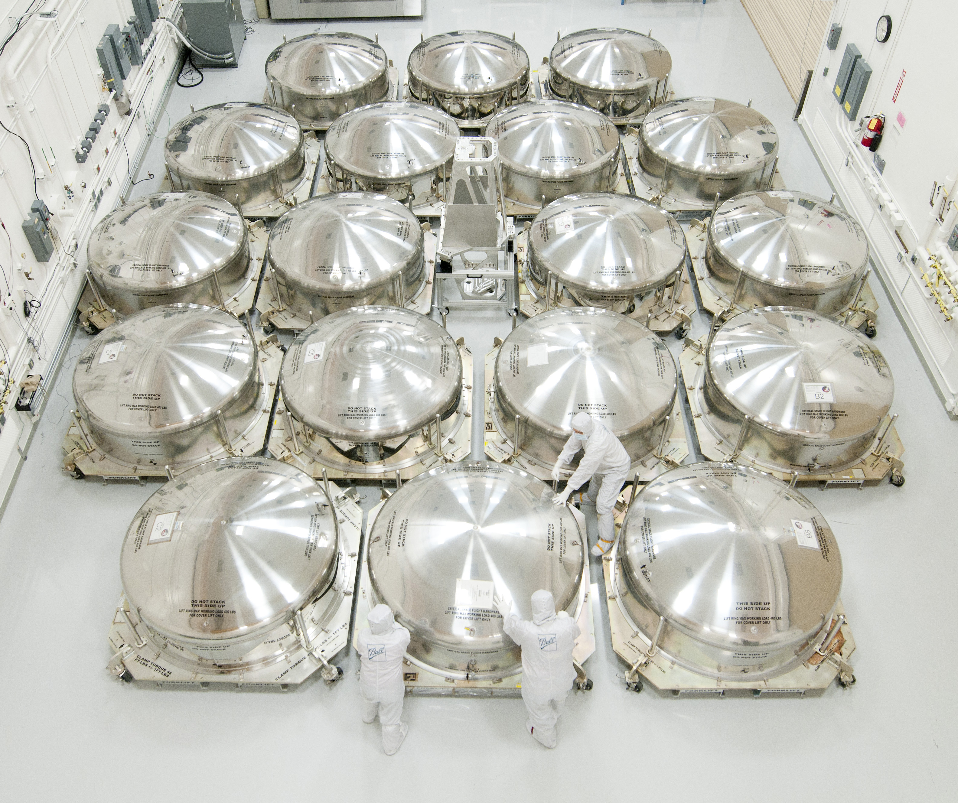 The powerful primary mirrors of the James Webb Space Telescope will be able to detect the light from distant galaxies. The manufacturer of those mirrors, Ball Aerospace & Technologies Corp. of Boulder, Colo., recently celebrated their successful efforts as mirror segments were packed up in special shipping canisters (cans) for shipping to NASA. The Webb telescope has 21 mirrors, with 18 primary mirror segments working together as one large 21.3-foot (6.5-meter) primary mirror. The mirror segments are made of beryllium, which was selected for its stiffness, light weight and stability at cryogenic temperatures. Bare beryllium is not very reflective of near-infrared light, so each mirror is coated with about 0.12 ounce of gold. Northrop Grumman Corp. Aerospace Systems is the principal contractor on the telescope and commissioned Ball for the optics system's development, design, manufacturing, integration and testing. The Webb telescope is the world's next-generation space observatory and successor to the Hubble Space Telescope. The most powerful space telescope ever built, the Webb telescope will provide images of the first galaxies ever formed, and explore planets around distant stars. It is a joint project of NASA, the European Space Agency and the Canadian Space Agency. For more information about the James Webb Space Telescope, visit: Credit: Ball Aerospace NASA image use policy. NASA Goddard Space Flight Center enables NASA’s mission through four scientific endeavors: Earth Science, Heliophysics, Solar System Exploration, and Astrophysics. Goddard plays a leading role in NASA’s accomplishments by contributing compelling scientific knowledge to advance the Agency’s mission. Follow us on Twitter Like us on Facebook Find us on Instagram